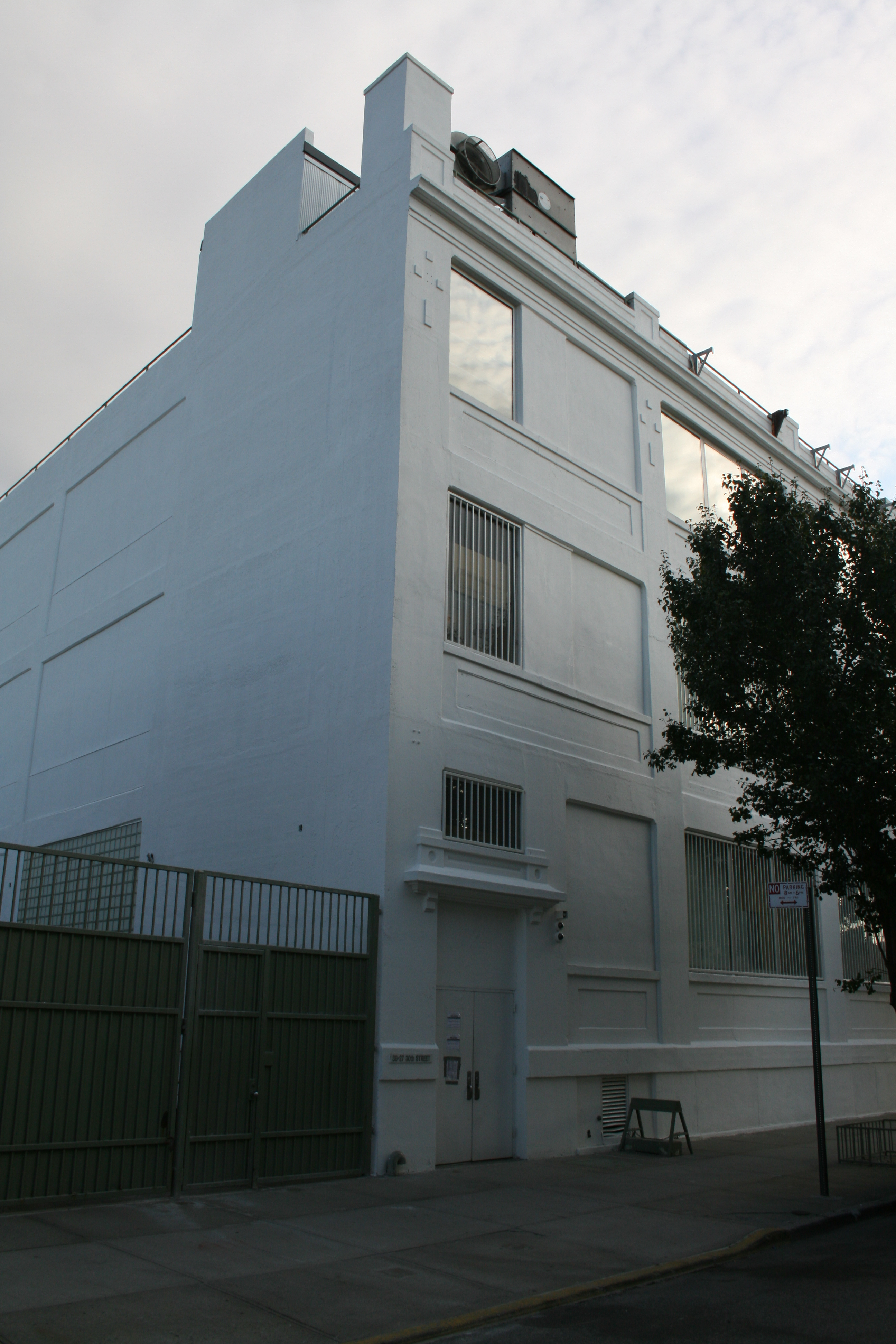 This photo is of Wikis Take Manhattan goal code L6, Fisher Landau Center.